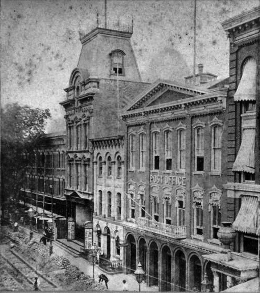 The Brooklyn Theatre before the catastrophic fire on December 05, 1876. Furthest from the camera, behind the tree, is the Dieter Hotel. The theater has a tall, mansard roof. Next door to the right is the First Precinct Station House. The U. S. Post Office is further to the right.